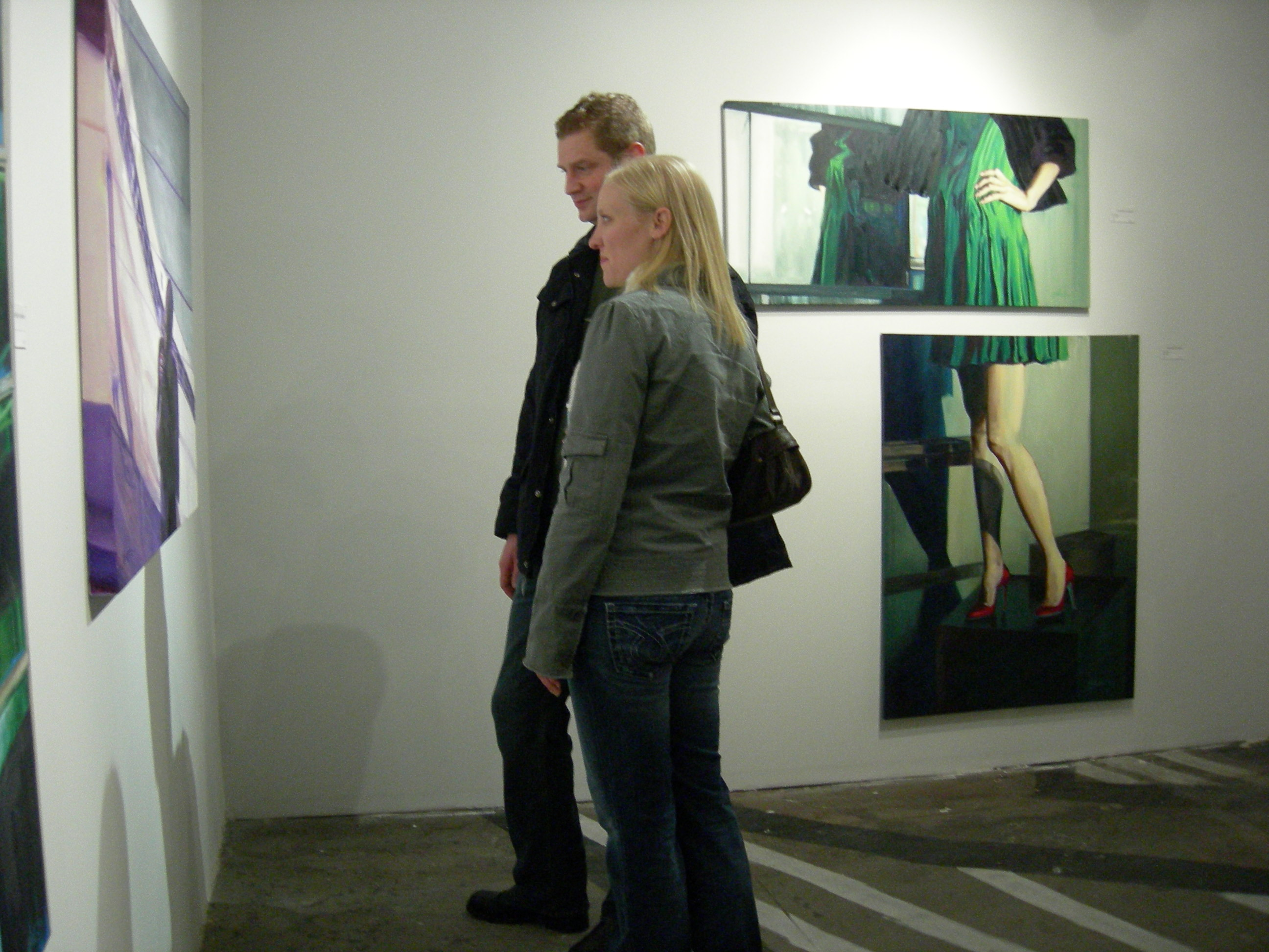 Show opening, La Familia Gallery, Tashiro-Kaplan Building, Pioneer Square, Seattle, Washington.